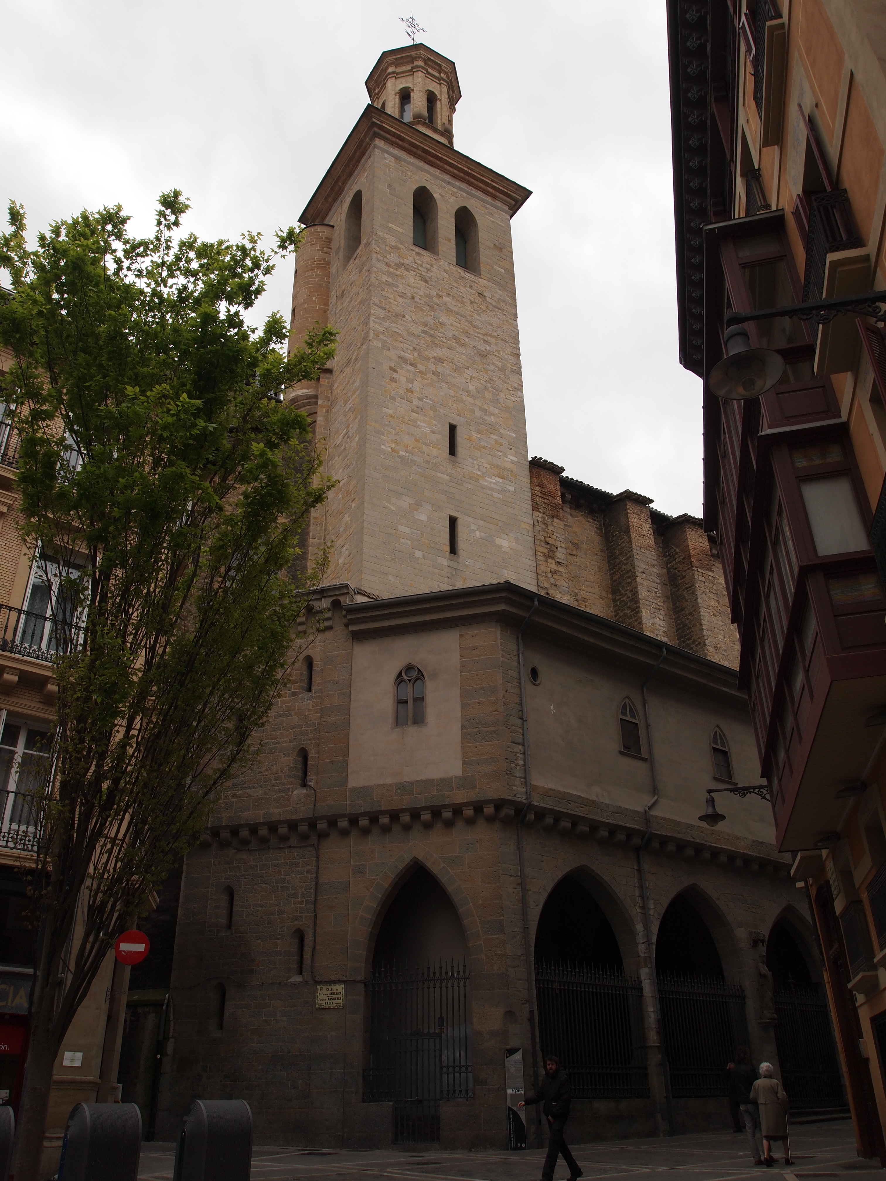 The gothic Church of San Saturnino in Pamplona